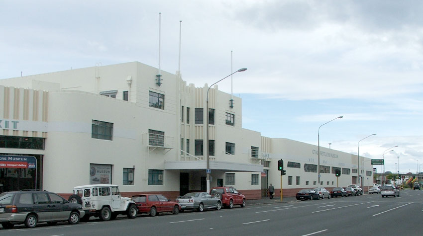 Otago Settlers Museum transport wing, Dunedin, New Zealand, November 2006